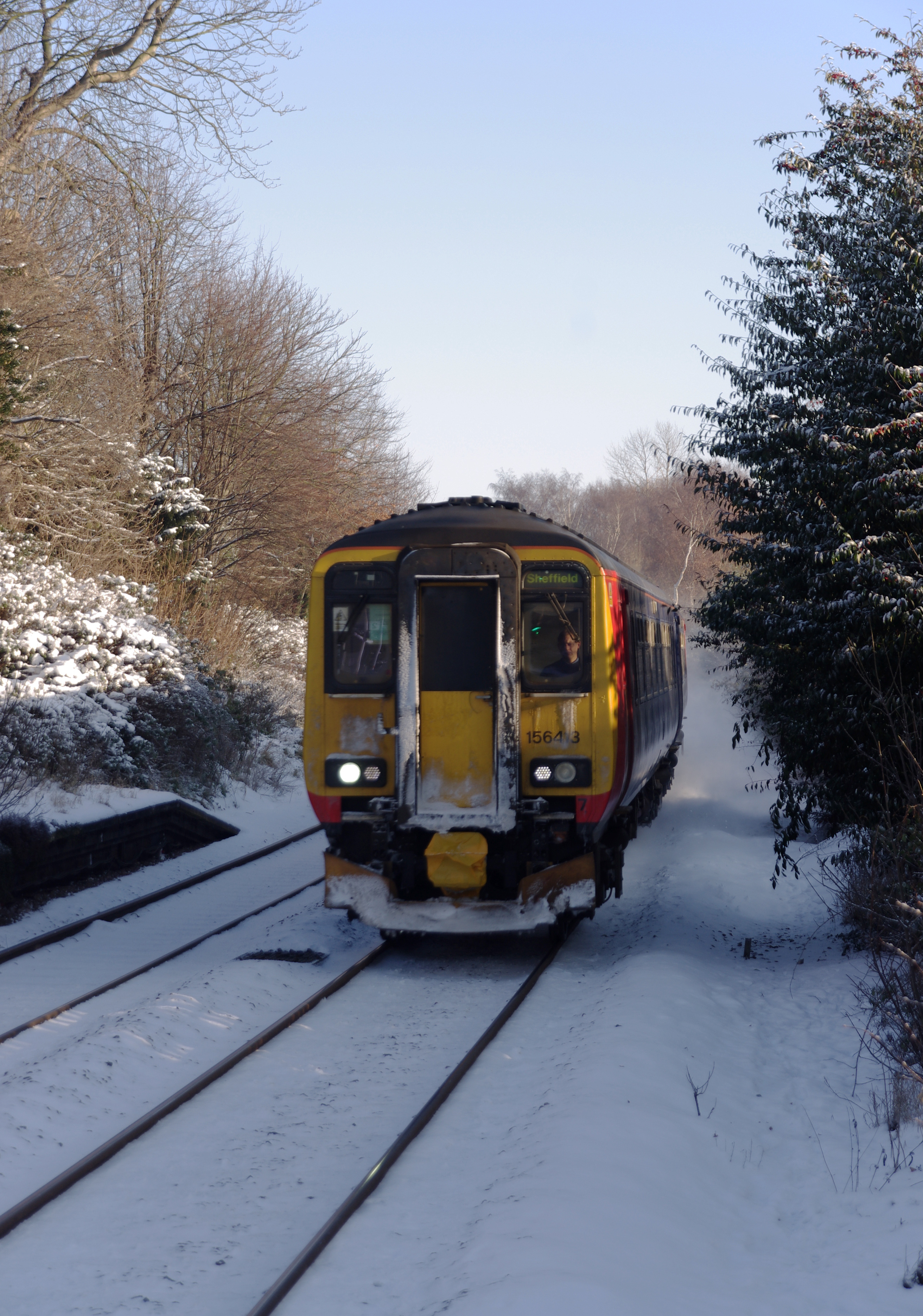 East Midlands Trains "Super Sprinter" DMU 156413 passes through a snow-covered Radcliffe railway station with a service to Sheffield.